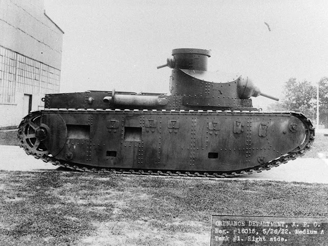 Medium Tank M1921 at the Aberdeen Proving Grounds, February 1922. The tank still carried its old index.